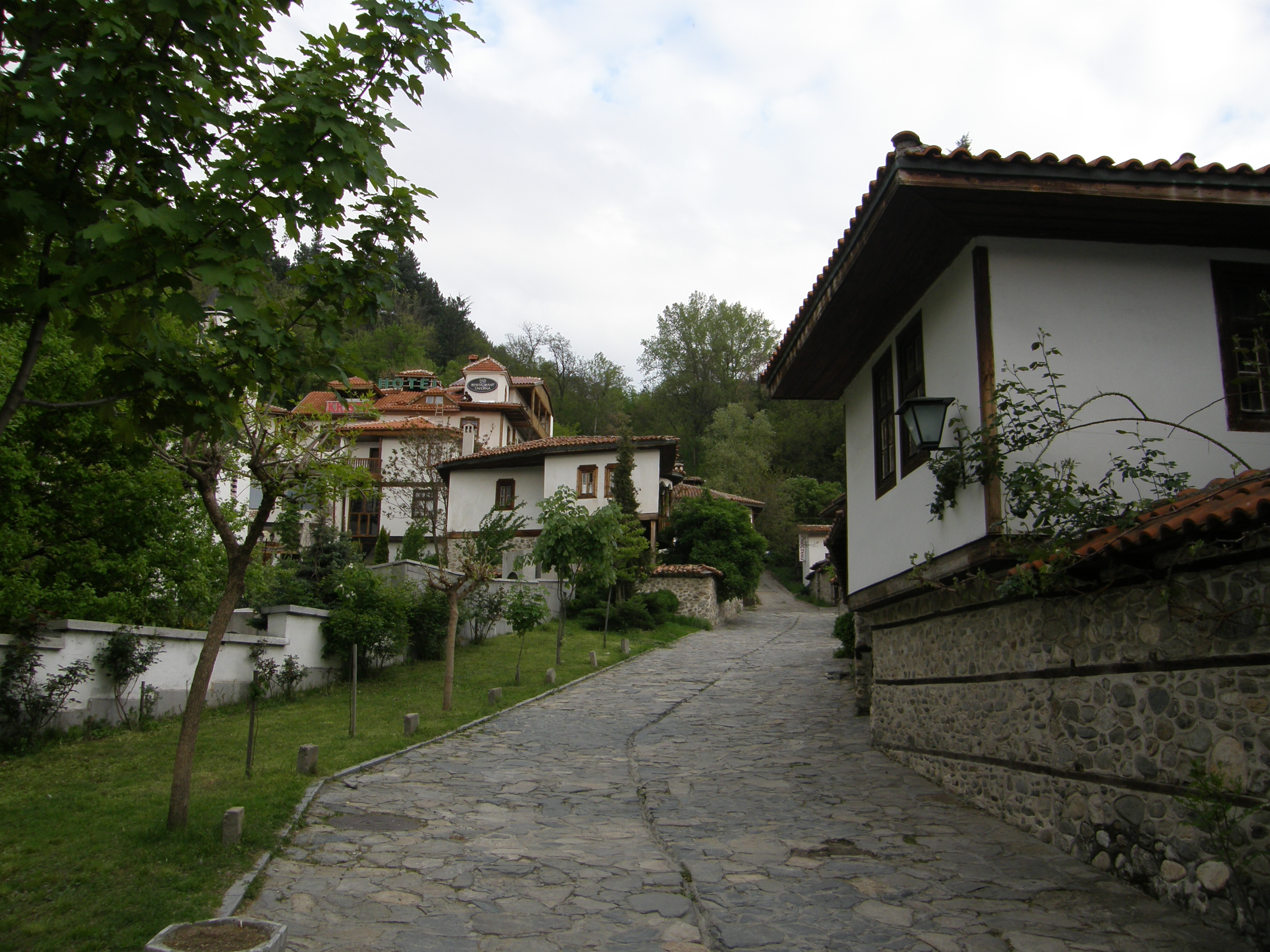 Houses from the period of the Bulgarian National Revival. Quarter Varosha in Blagoevgrad.